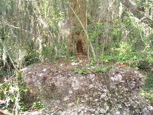 Theodor Roosevelt Area of the Timucuan Preserve